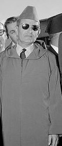 credit: Ernest Orlando Lawrence Berkeley National Laboratory * Title: King Mohammed V of Morocco * Description: The caravan of black limousines that paraded up Cyclotron Road on December 5, 1957, was bringing King Mohammed V of Morocco and his party for a visit to the Laboratory. Professor Lawrence points out features of the view from The Hill for President Sproul and King Mohammed V. * Citation Caption: Magnet, Vol.2, No.1, January 1958, p. 5 * Date: 1957